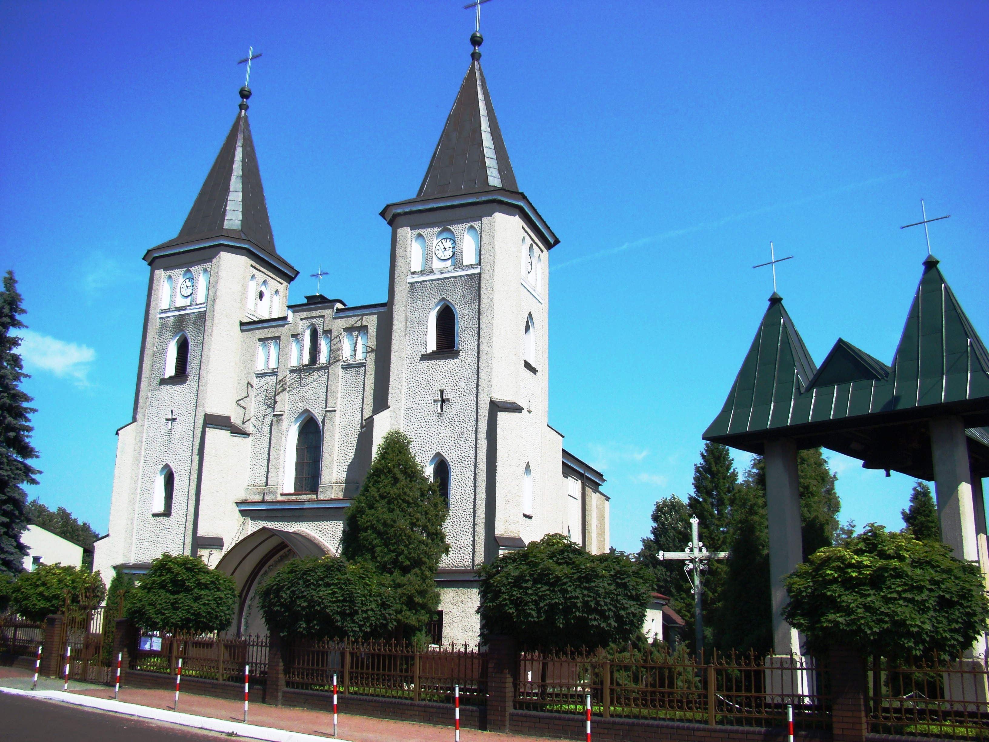 Saint John the Baptist church in Poczesna, Poland